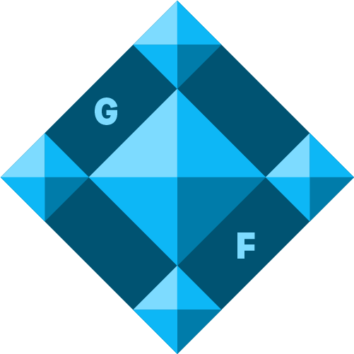 Strava - Gran Fondo challenge badge for November 2018